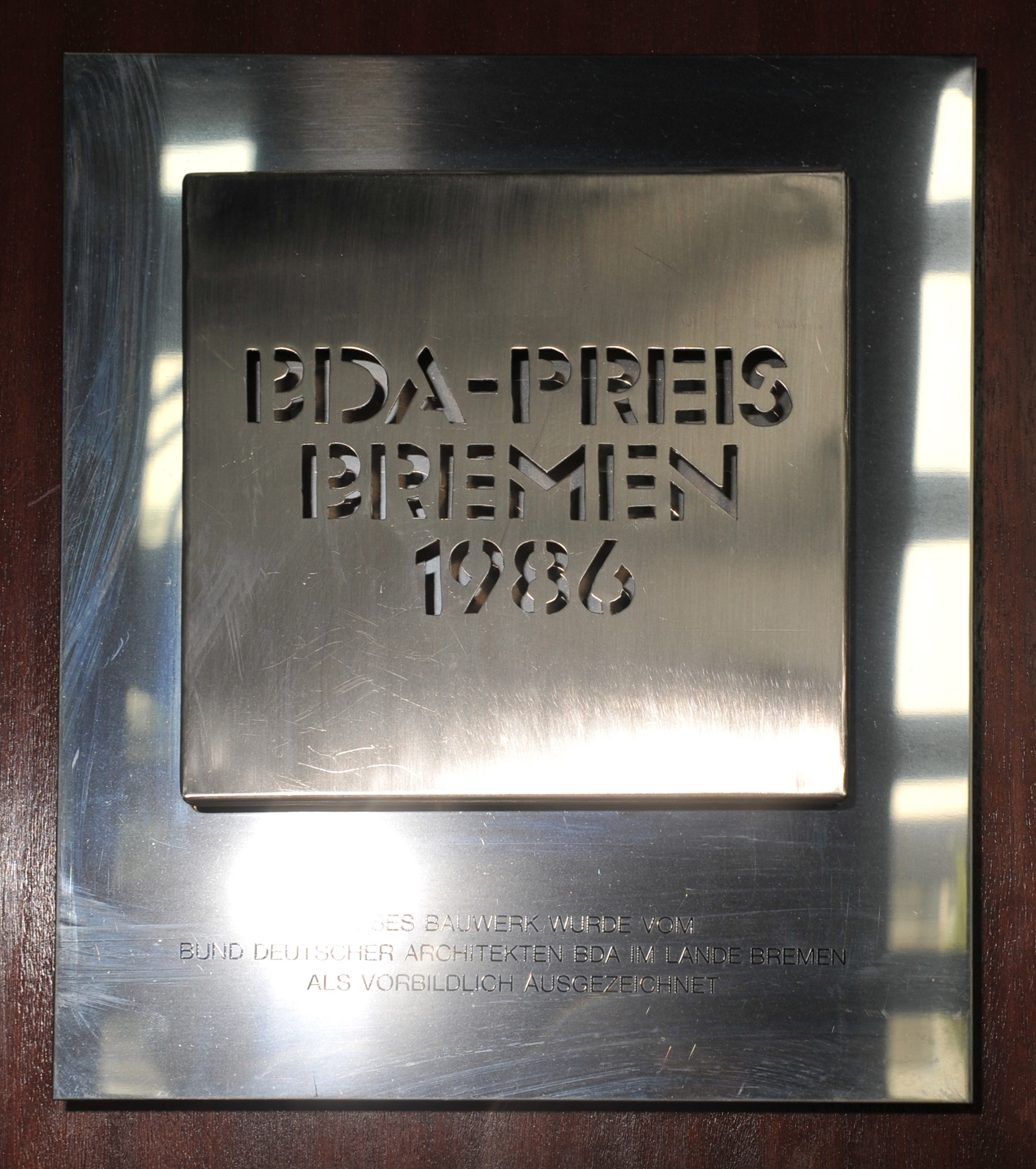 Plate of BDA (Bund Deutscher Architekten) award, delivered to the building of the Alfred Wegener Institute in Bremerhaven (architect Oswald Mathias Ungers)